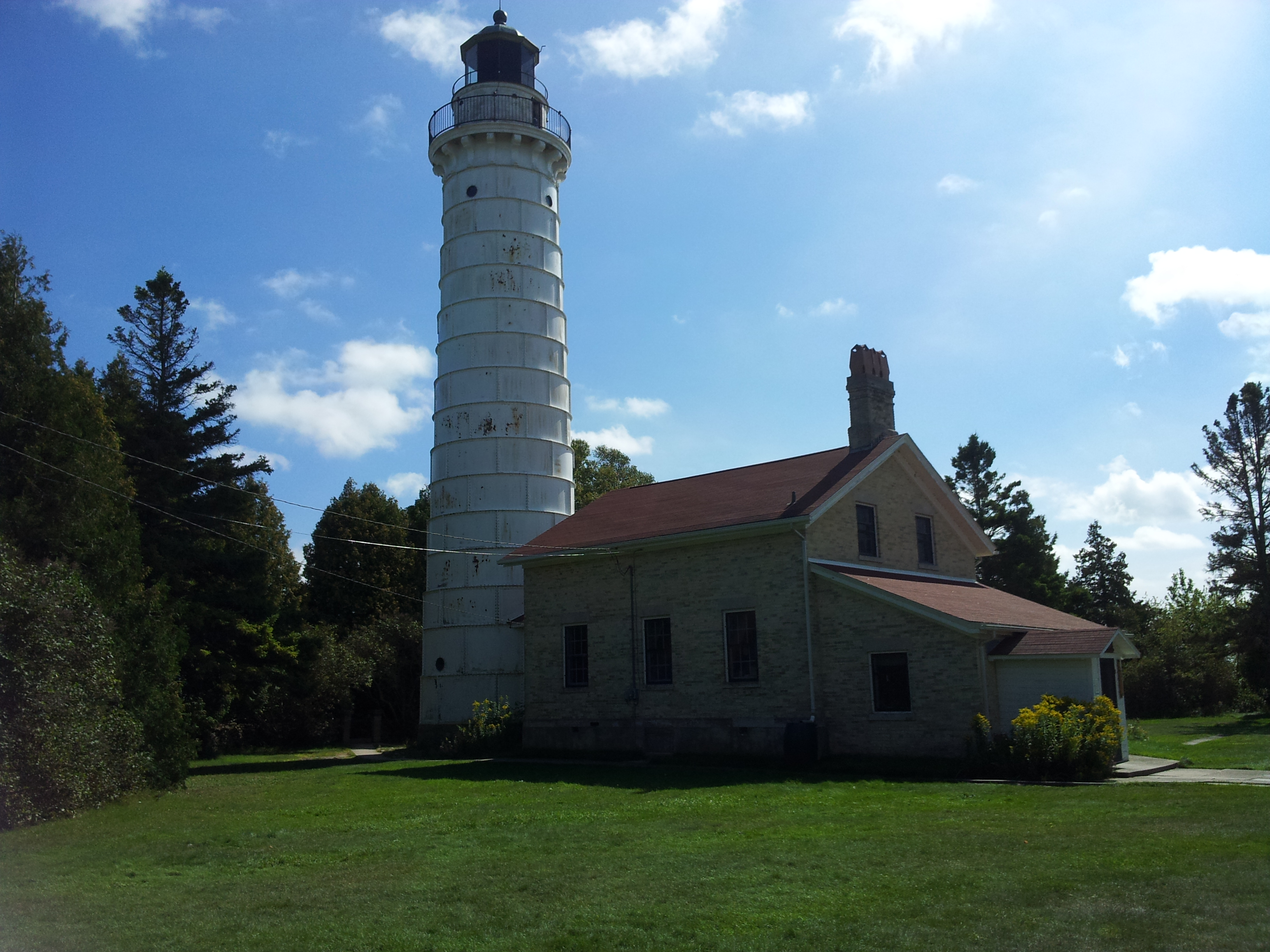 Cana Island Lighthouse, Door County, Wisconsin (September 2013).